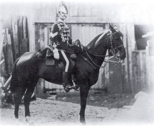 Photo of a Royal Guides Corporal on Horseback.